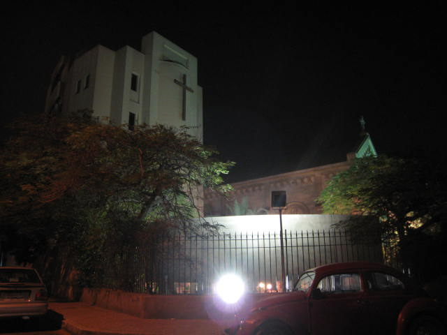 Jesus Heart Catholic Church